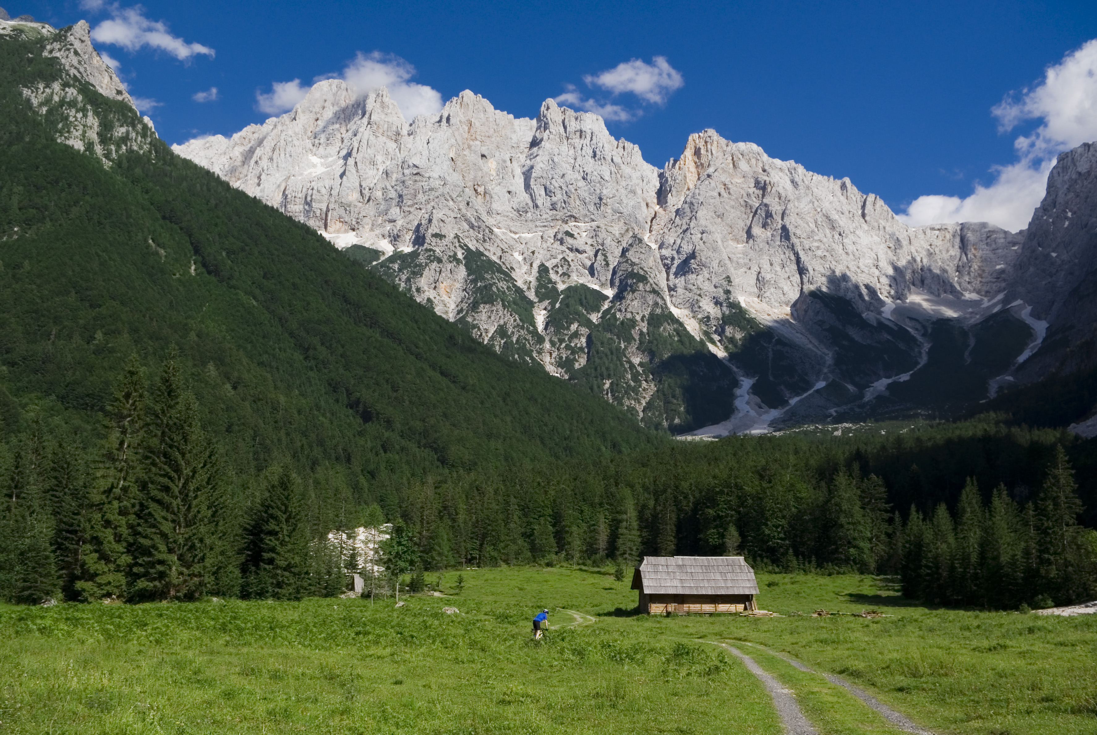 Alpine valley of Krnica near Kranjska Gora, Slovenia. The highest peak (in the clouds) in the picture is Škrlatica.